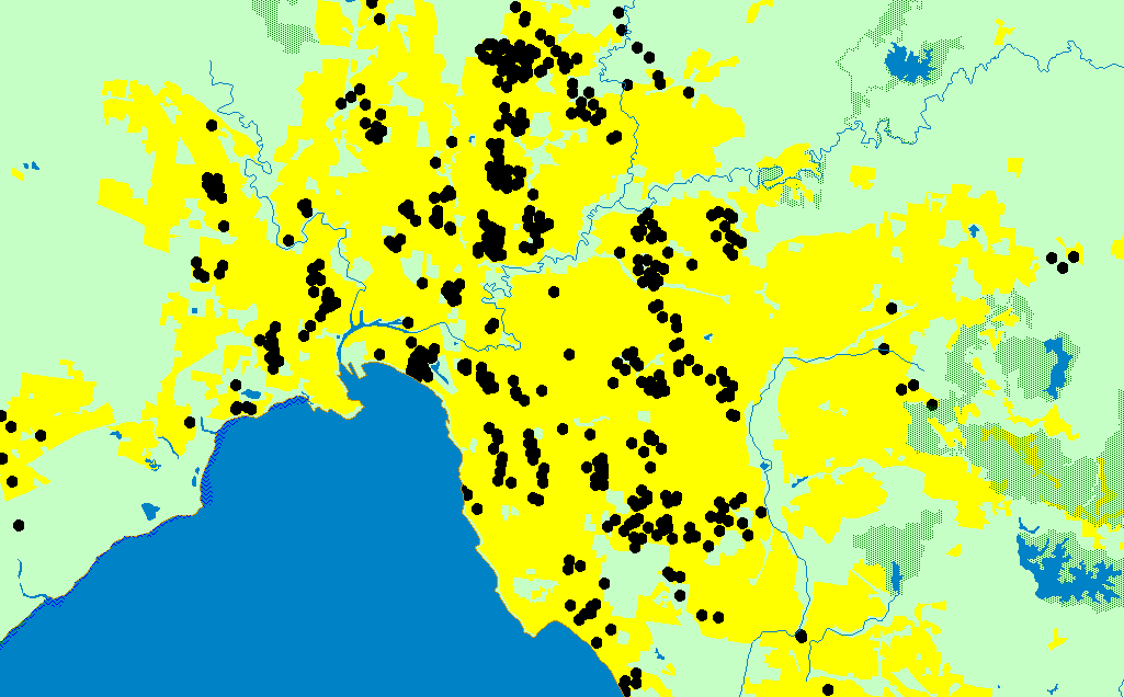 Greece-born residents in Melbourne, 2006 (one dot equals 100 such residents in a collection district)